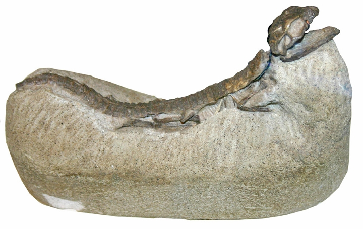 Fossil of Hoplosuchus kayi